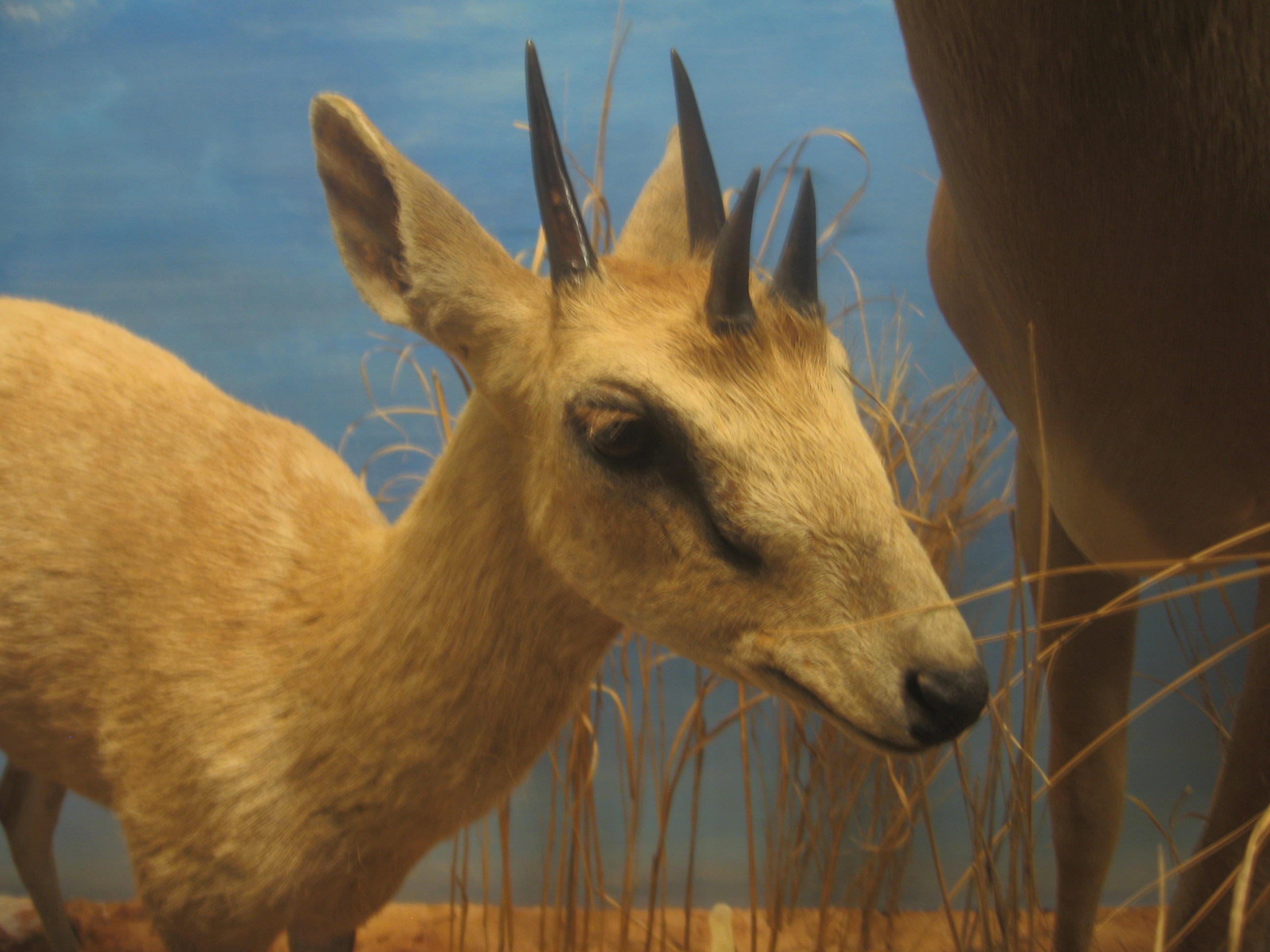 Four-horned Antelope at the Field Museum